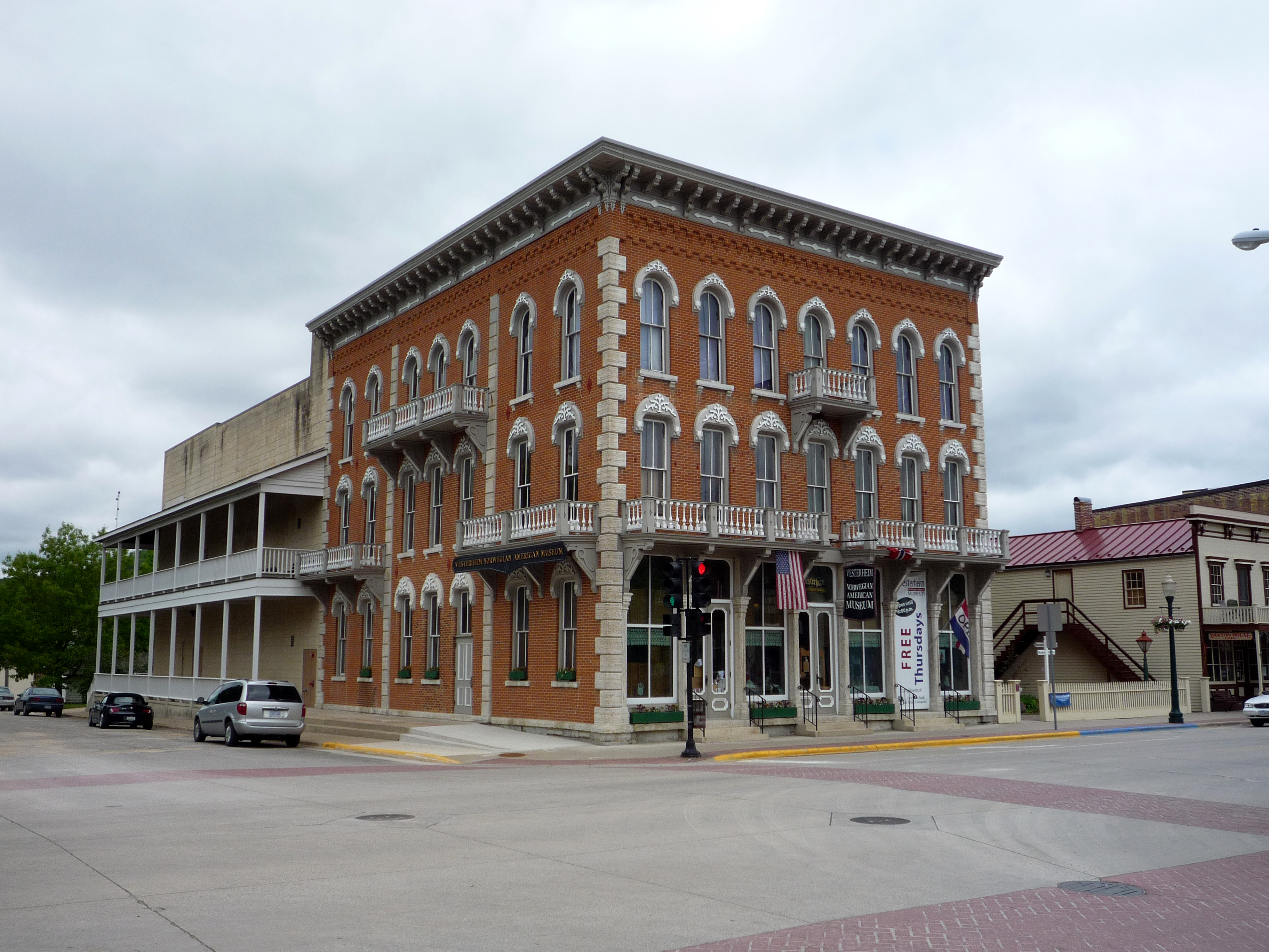 Vesterheim Norwegian-American Museum, Decorah, Iowa, USA.